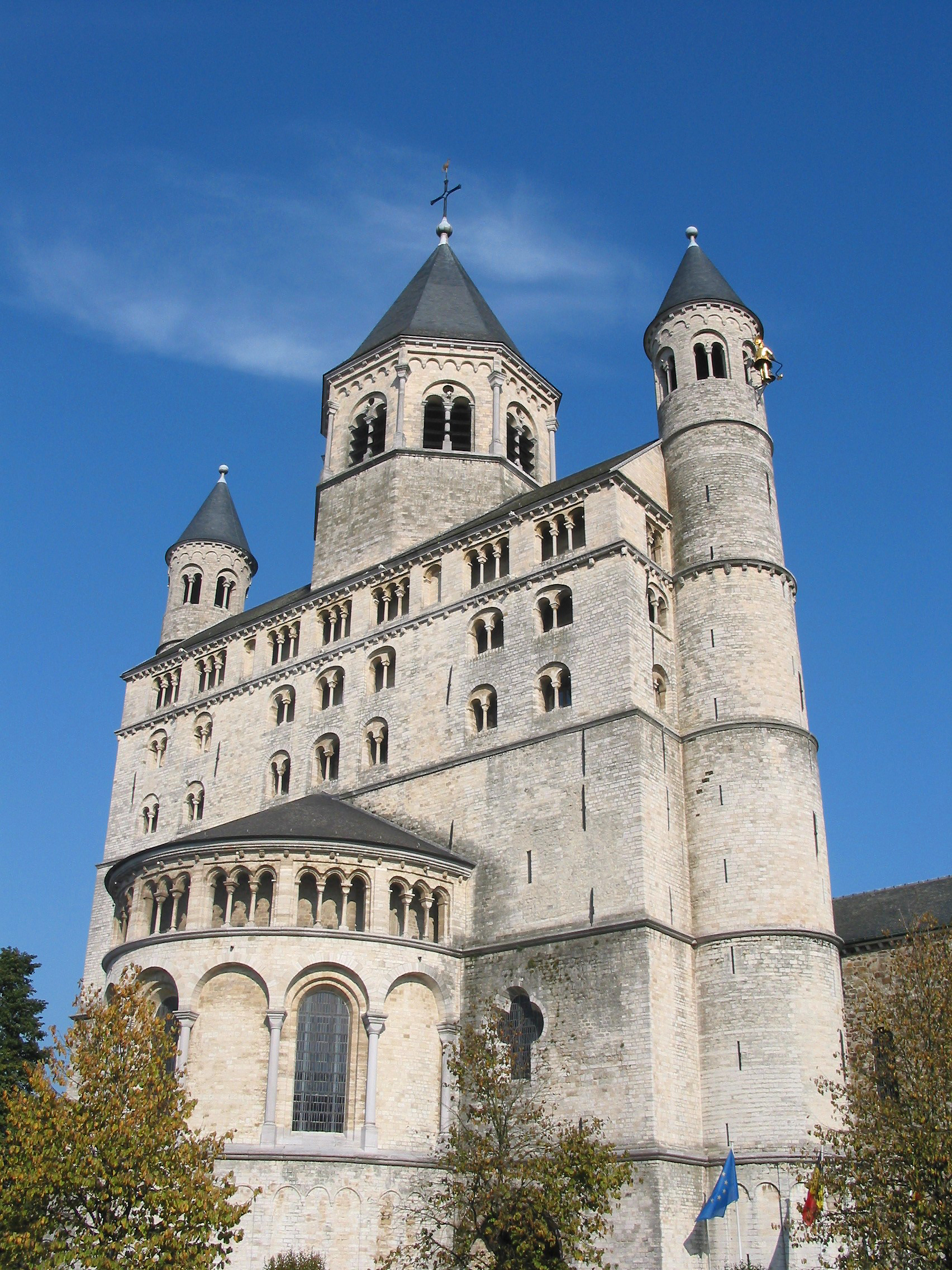 Nivelles (Belgium), the St. Gertrude Collegiate church (XI/XIIIth century), her restored fore-part (XXth century) and the replica of the Perron fountain (1922). Walon: Nivèle (Bèljike), li coléjiale Sint Djèrtrûde (XI/XIIIin.me sièkes, si avant-cwârps rimètu a noû au (XXin.me sièke) èt l’rèplike dol fontin.ne do pèron (1922).